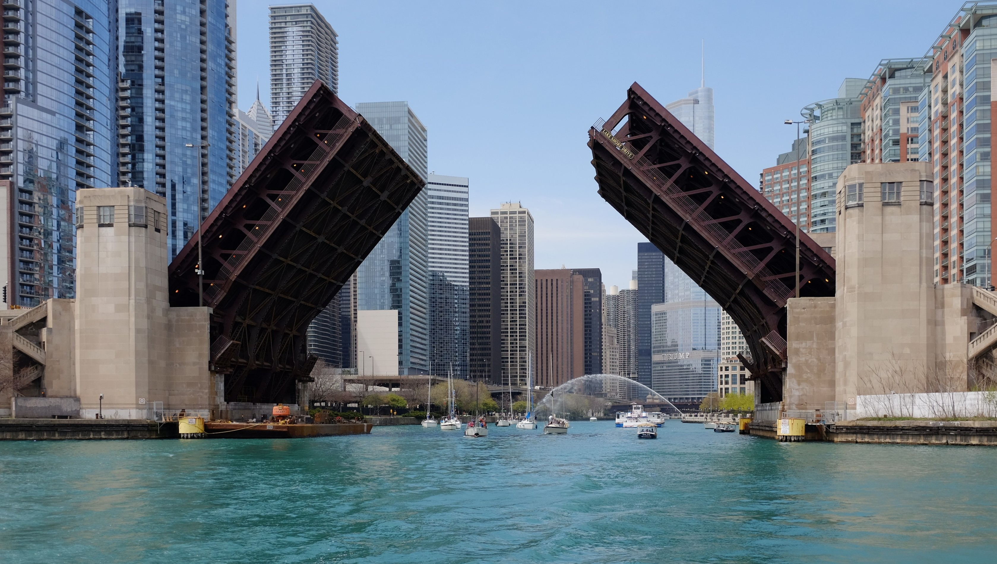 Streeterville, Chicago, IL 60611, USA